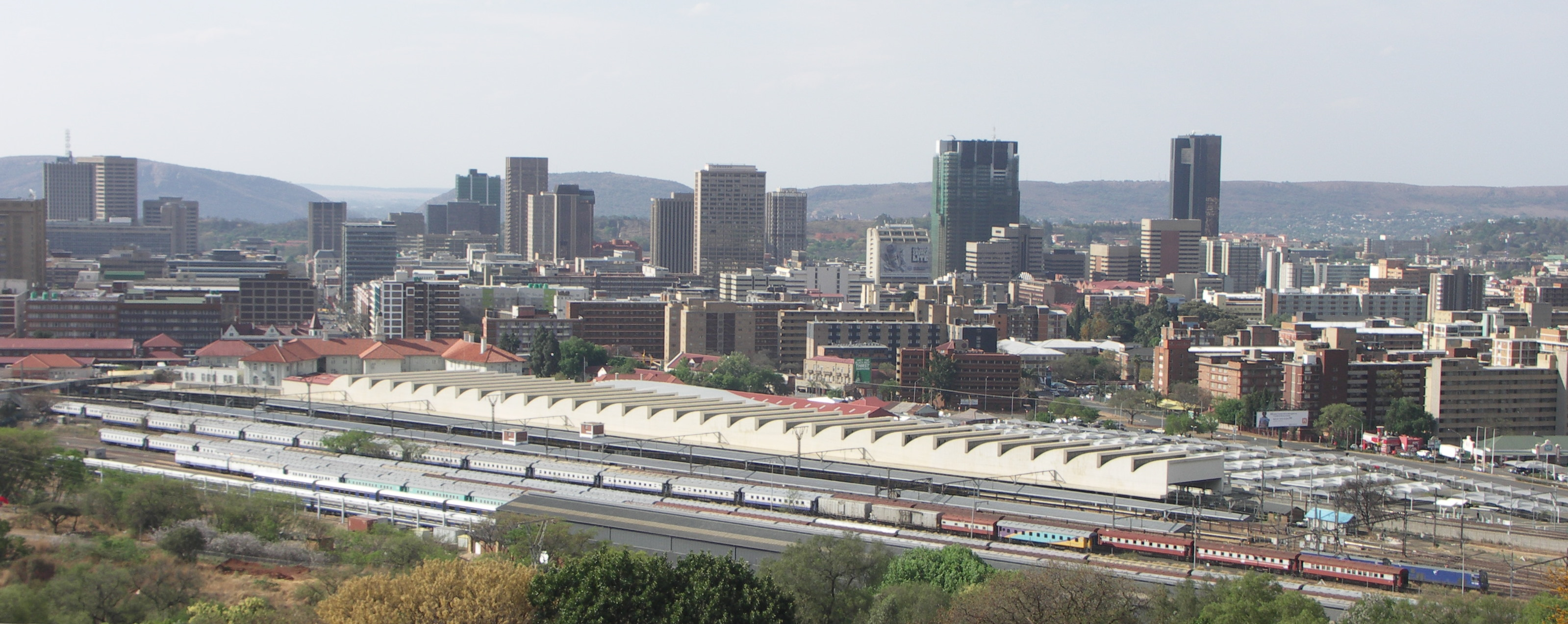 Gautrain leaving Pretoria Station. Blue Class 14E1 locomotives in the foreground. Photo taken from Salvokop